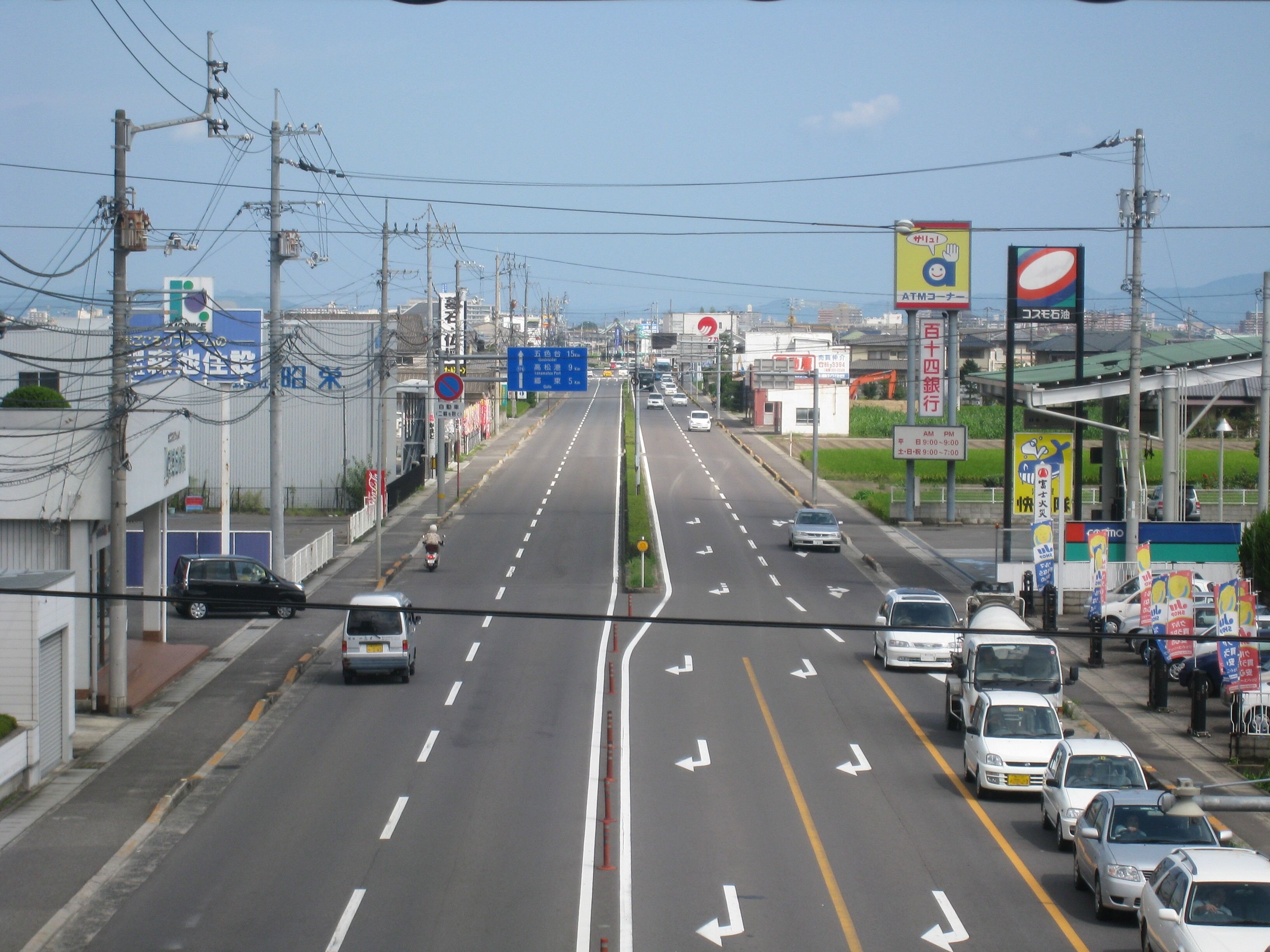 Takamatsu Sangyo-doro (Kagawa prefectural road No.176)